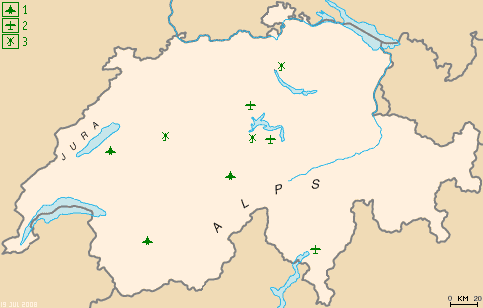 Jet Small aircraft Helicopter